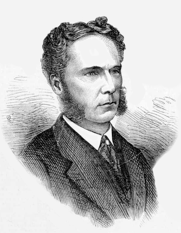 Portrait of Joseph George Long Innes (1834–1896)